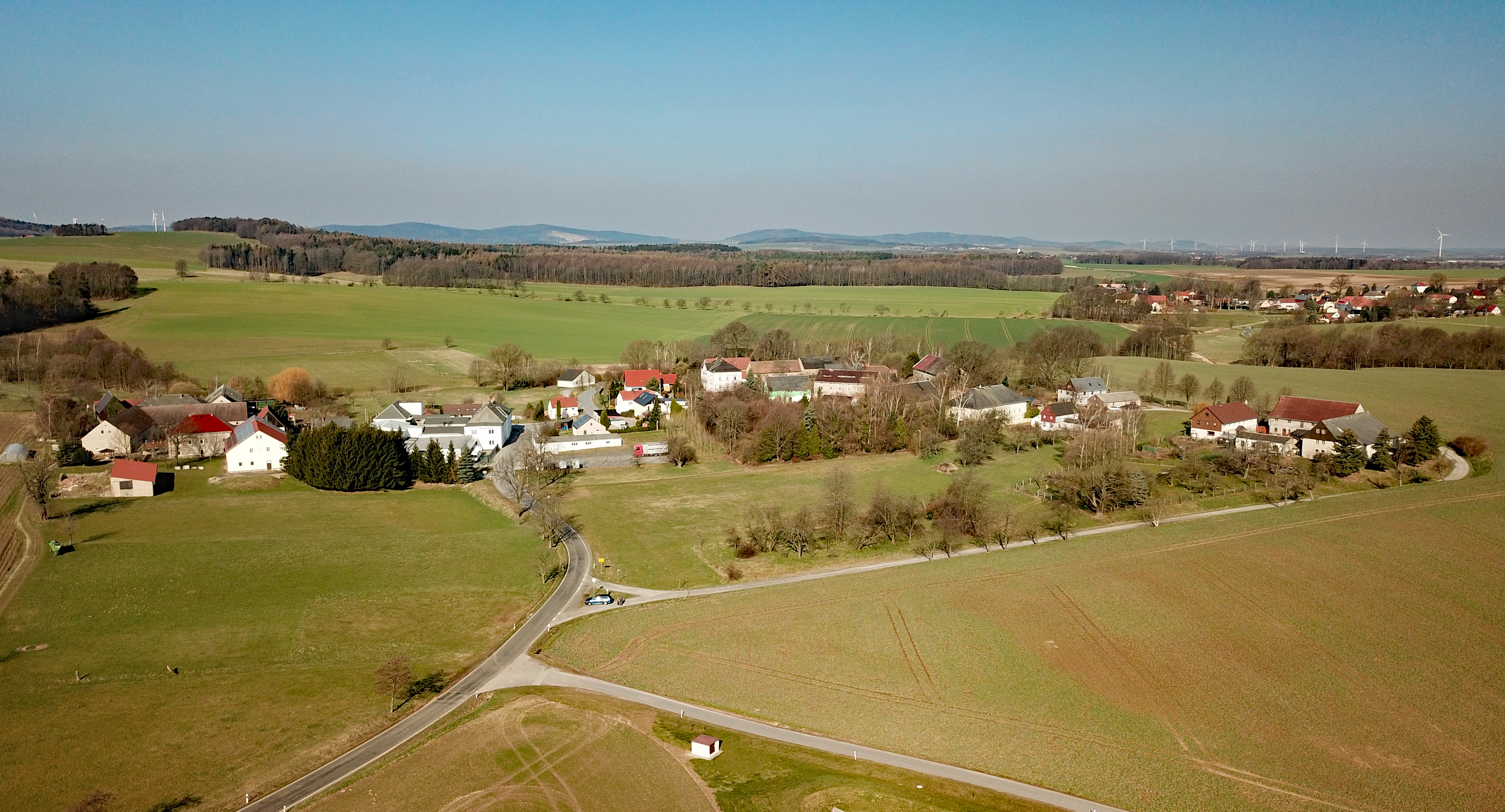 Leutwitz (Göda, Saxony, Germany) Hornjoserbsce: Powětrowy wobraz Lutyjec